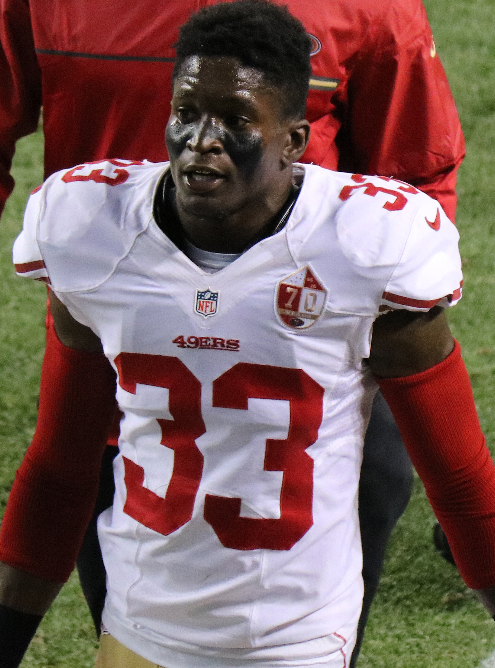 Rashard Robinson, a player on the National Football League.